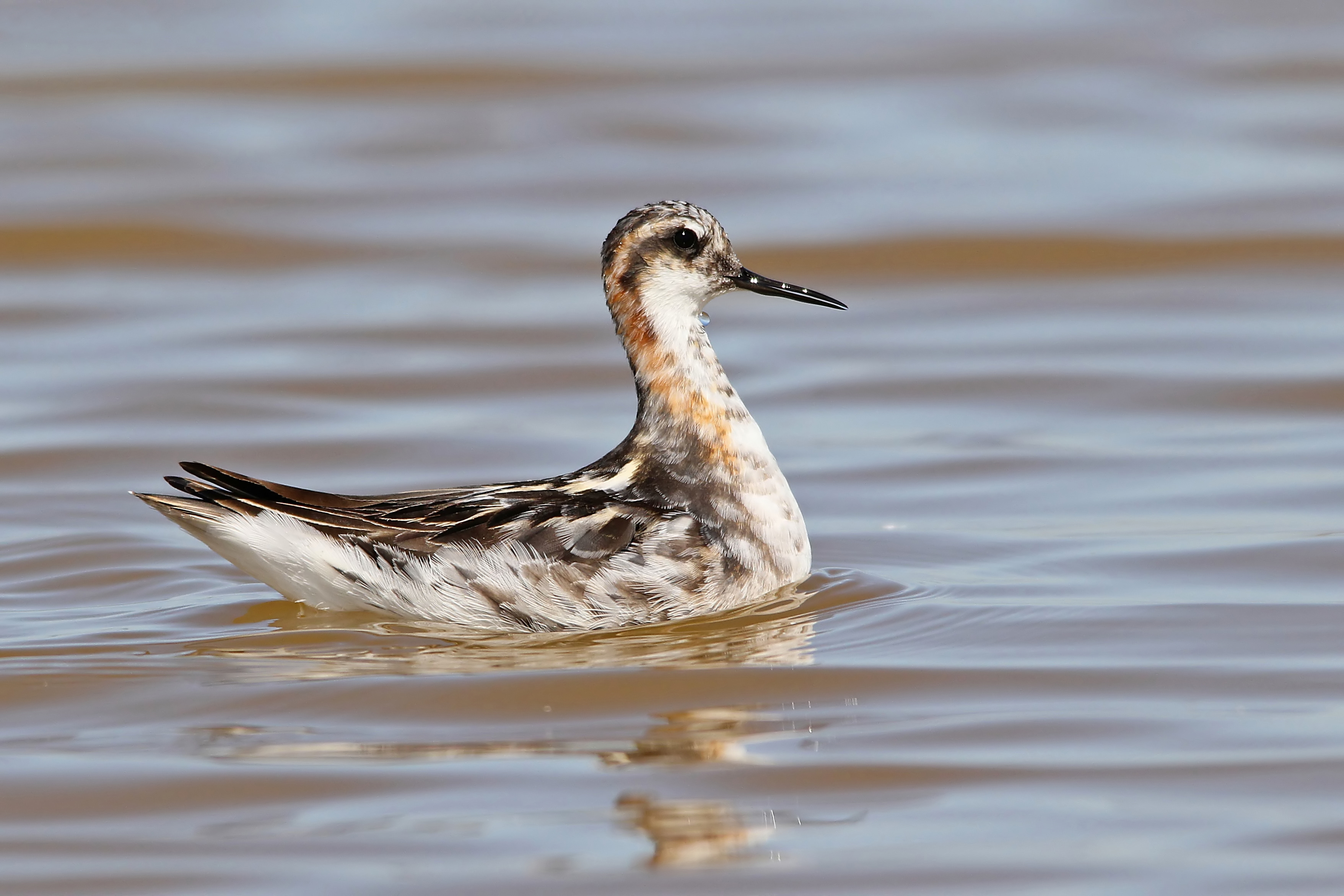 Male Red-necked Phalarope Phalaropus lobatus preparing for migration near San Jose,CA.